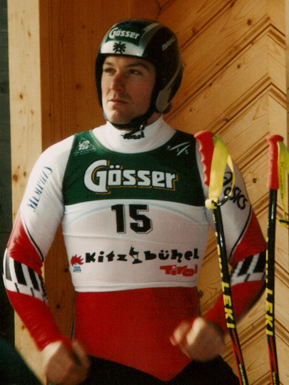 Austrian alpine skier Hans Knauß before downhill training in Kitzbühel (Austria) on January 20th, 2000.